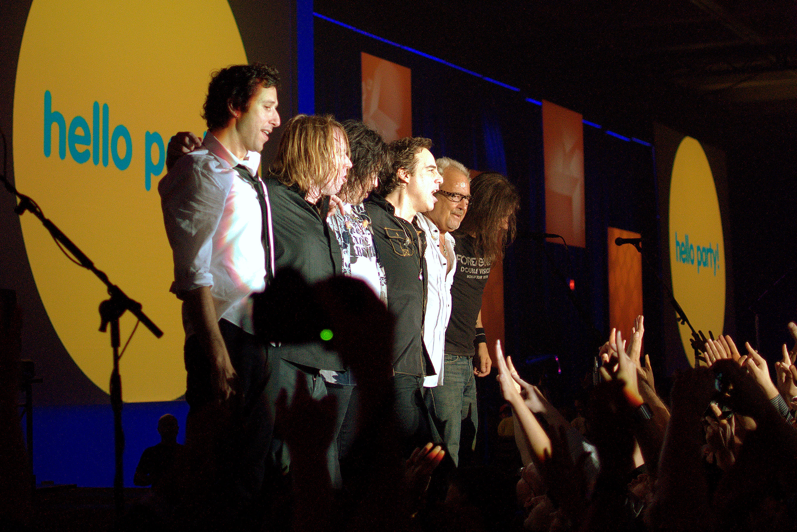 Foreigner members present to audience after concert, VMWorld, Moscone Center, San Francisco CA USA, September 2 2009